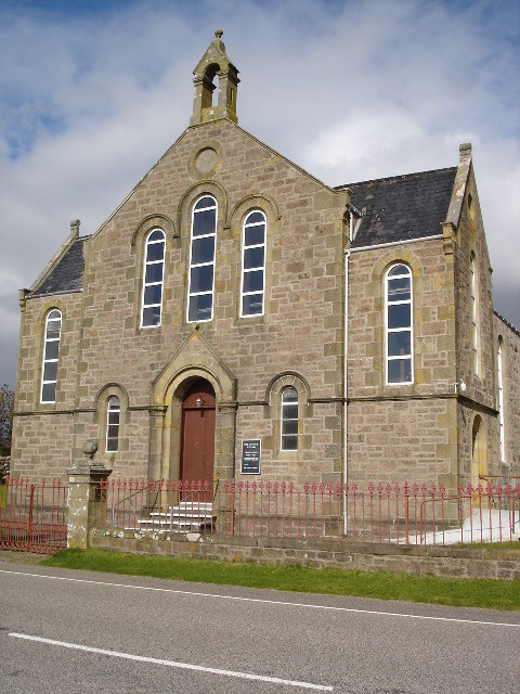 Free Church of Scotland in Aultbea. On the main road through Aultbea, the church overlooks Loch Ewe.